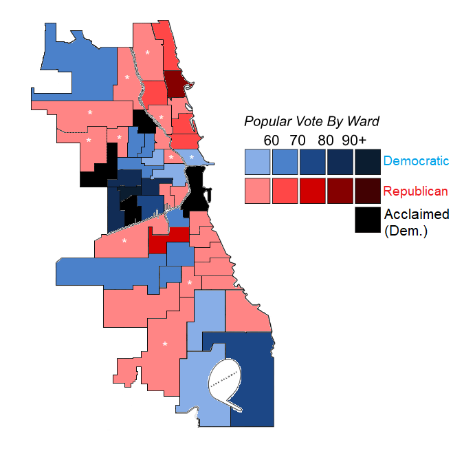 Map of the Chicago Aldermanic election results in 1929 by ward, white asterisks indicating that the result was determined from a runoff election. Map adapted with permission from with data from aperture cards of canvas sheets of the Board of Election Commissioners.